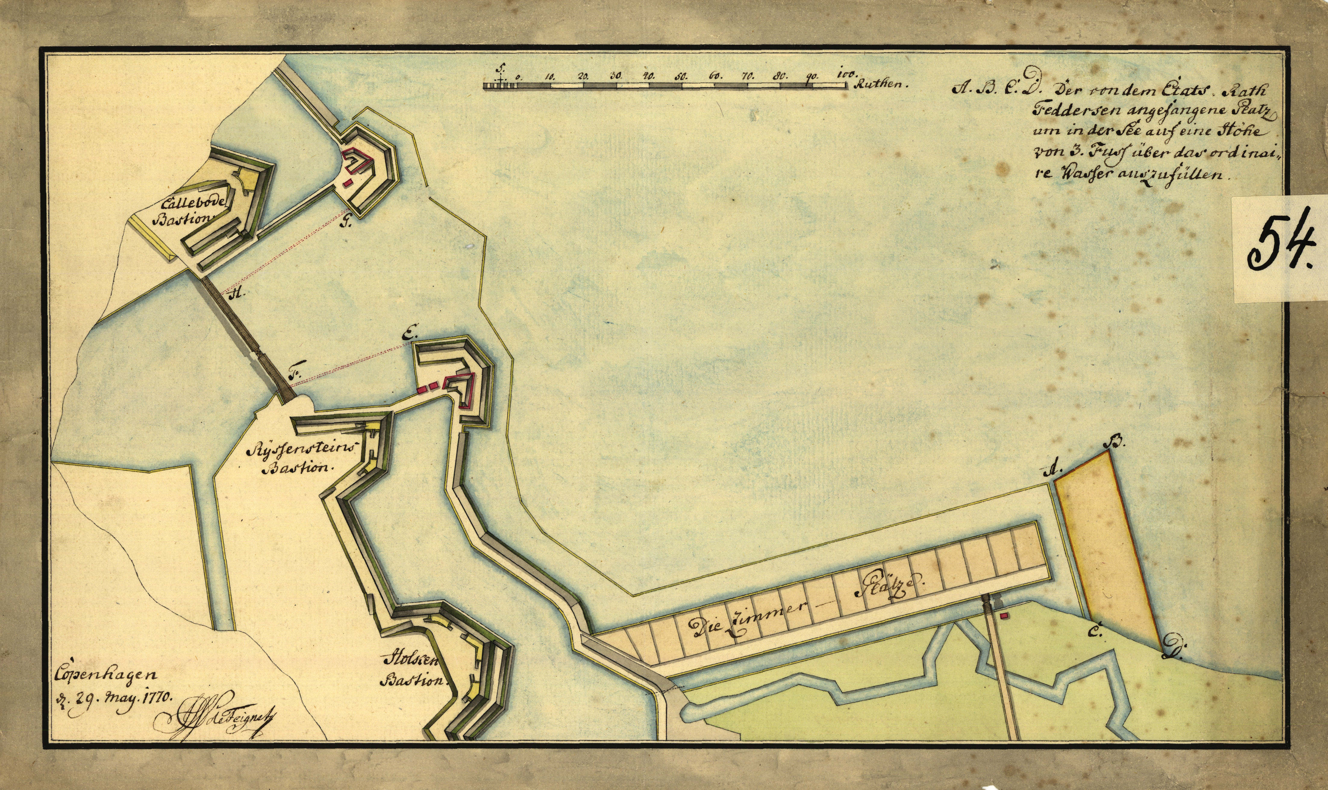 Kallebod (Kalvebod), Rysensteen, and Holck's Bastions, drawn 29 May, 1770 by Feignet.